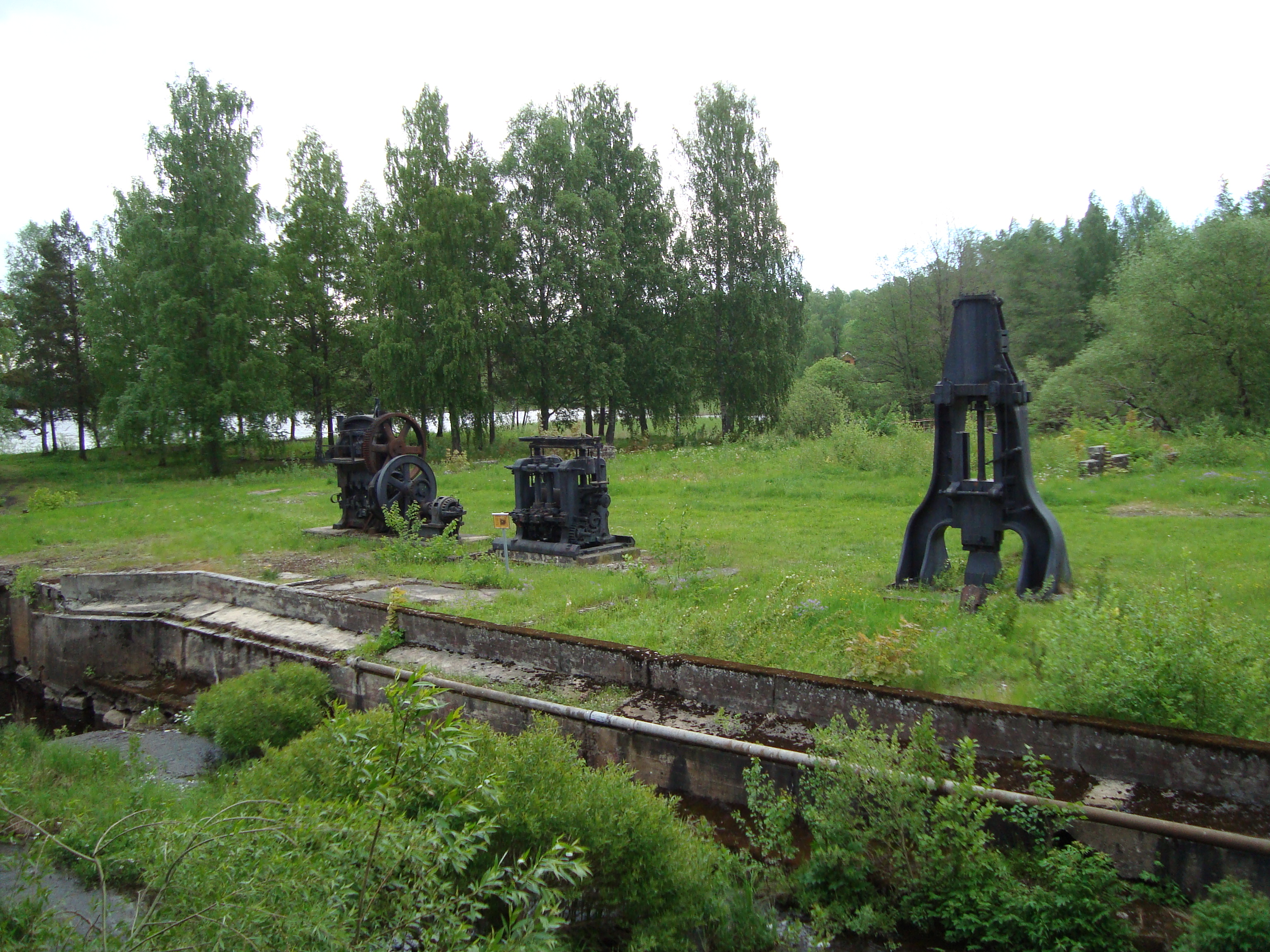 Old iron works of Forsbacka, Gävle Municipality, Sweden